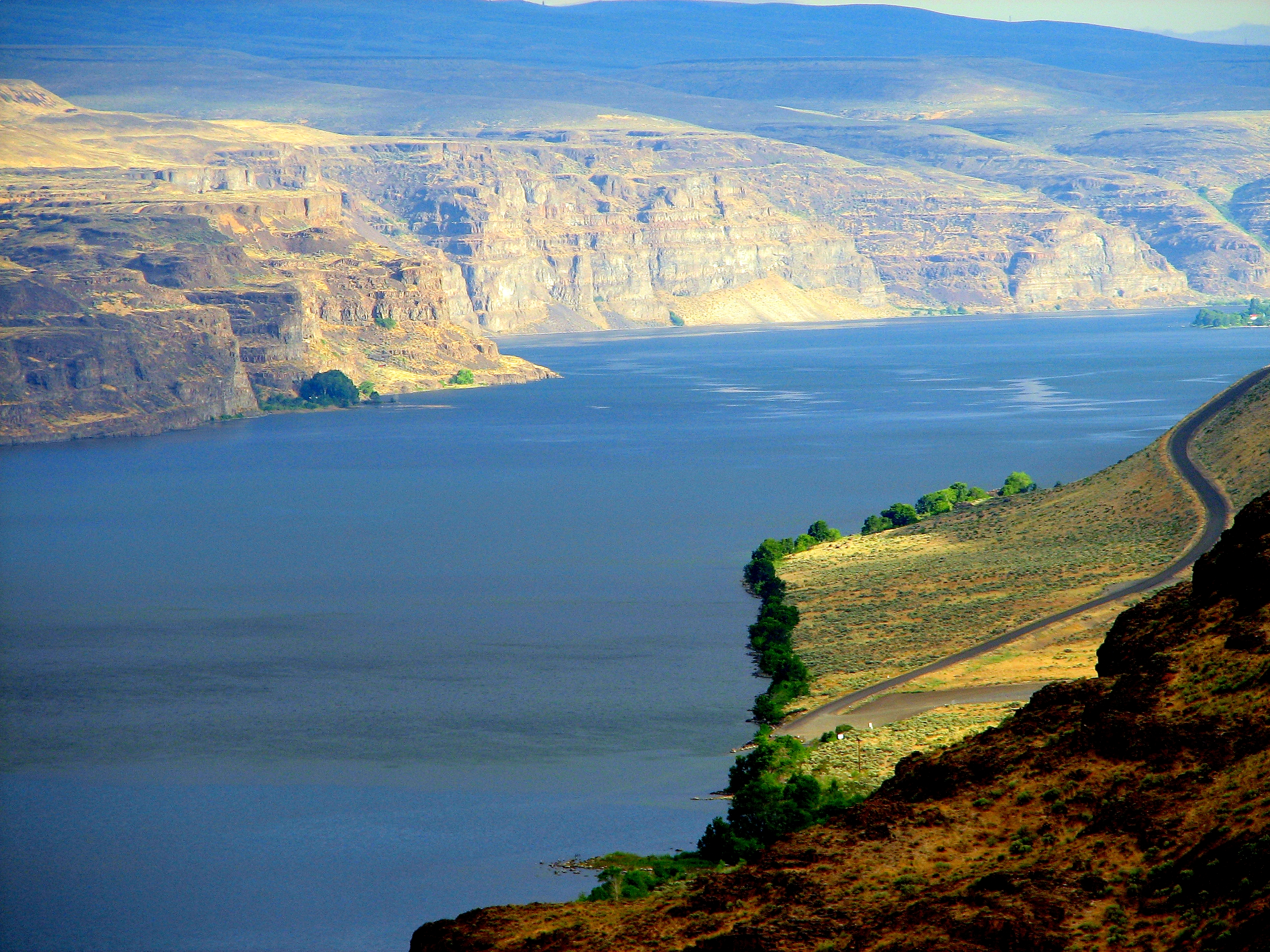 Washington State